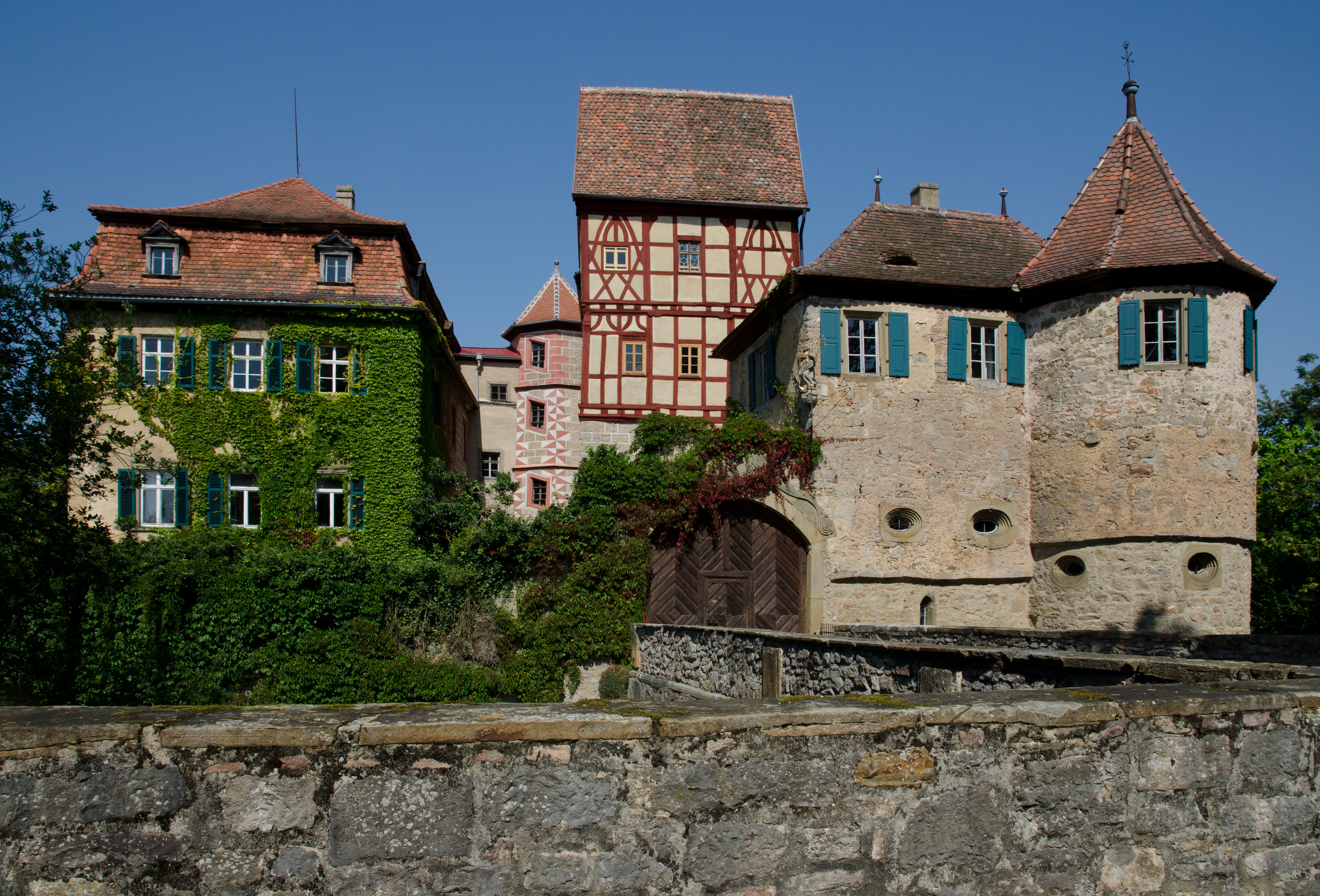 Moated castle Unsleben, county Rhön-Grabfeld, Bavaria, Germany